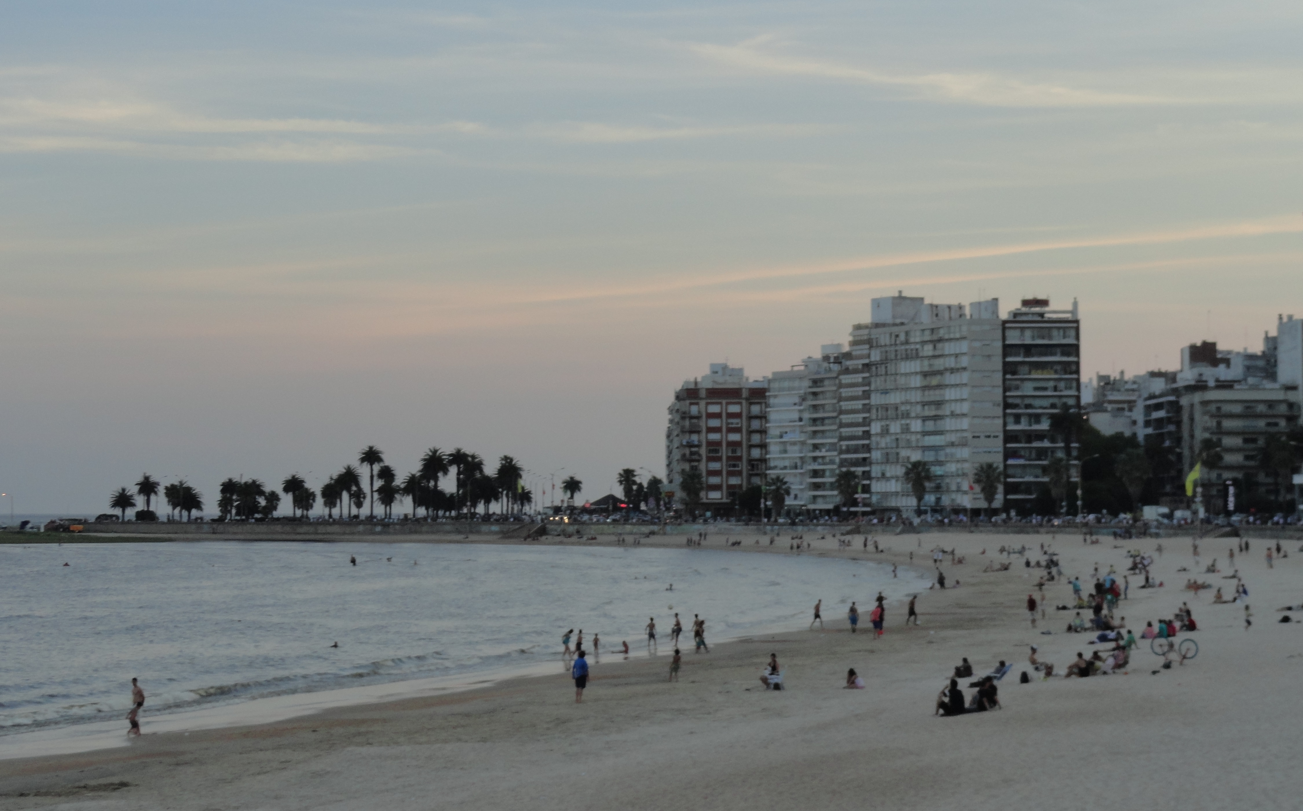 Rambla of Pocitos in Montevideo at the 2014 general elections in Uruguay